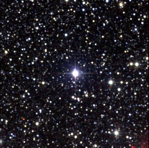 Proxima Centauri, the closest star to Earth other than the Sun, as seen by 2MASS.